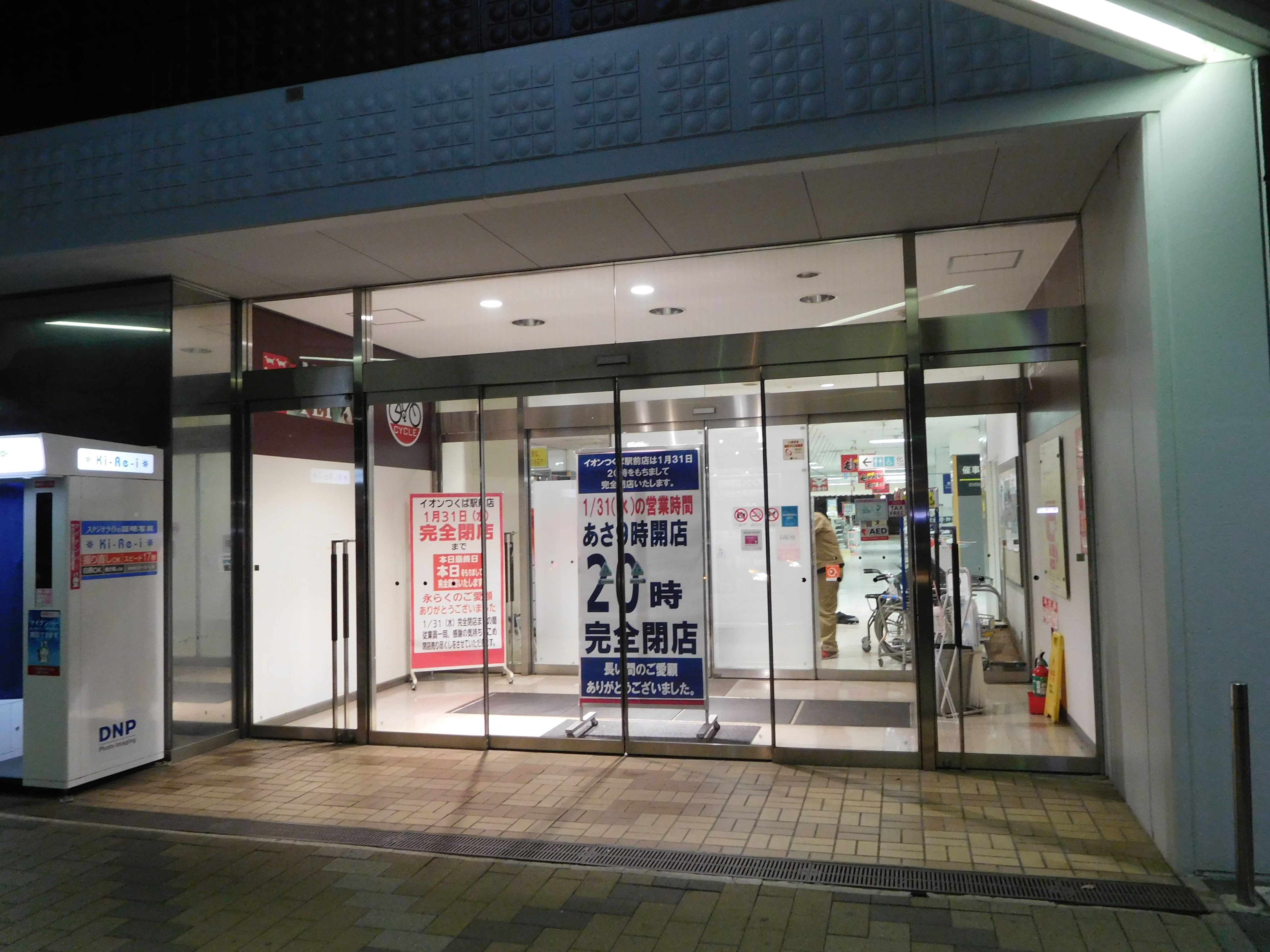 This was the closure of AEON Tsukuba Ekimae shop in Tsukuba, Ibaraki, Japan.